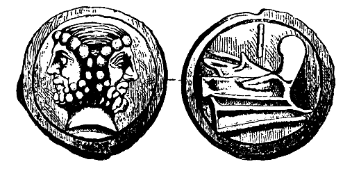 Romas copper as